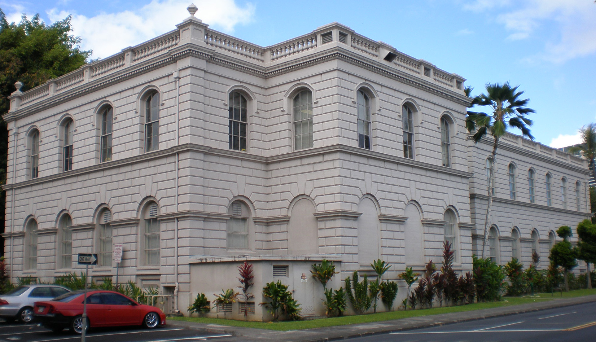 The Kapuaiwa Building — 426 Queen Street, Honolulu, Hawaii. Contributing property in the Hawaii Capital Historic District, on National Register of Historic Places. Built 1884, architect George Lucas.